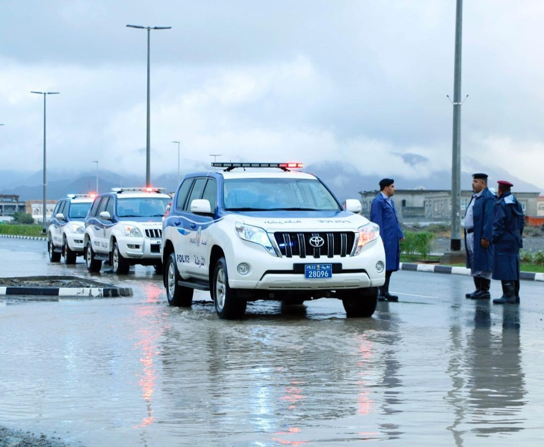 Sharjah Police units monitoring the condition of roads during rainfall season in Sharjah.